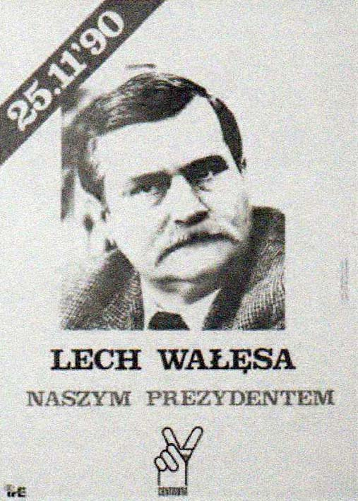 Plakat wyborczy Lecha Walesy w wyborach prezydenckich 1990 ze zdjęciem kandydata wykonanym przez J. M. Goliszewskiego (skan oryginału plakatu z archiwum jego właściciela).